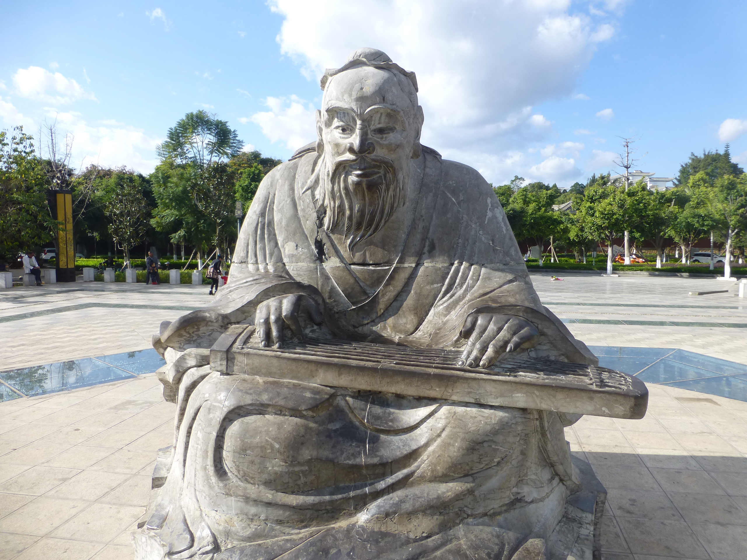 Confucius Culture Square, outside of the east gate of the Confucian Temple in Lin'an, Jianshui County, Yunnan